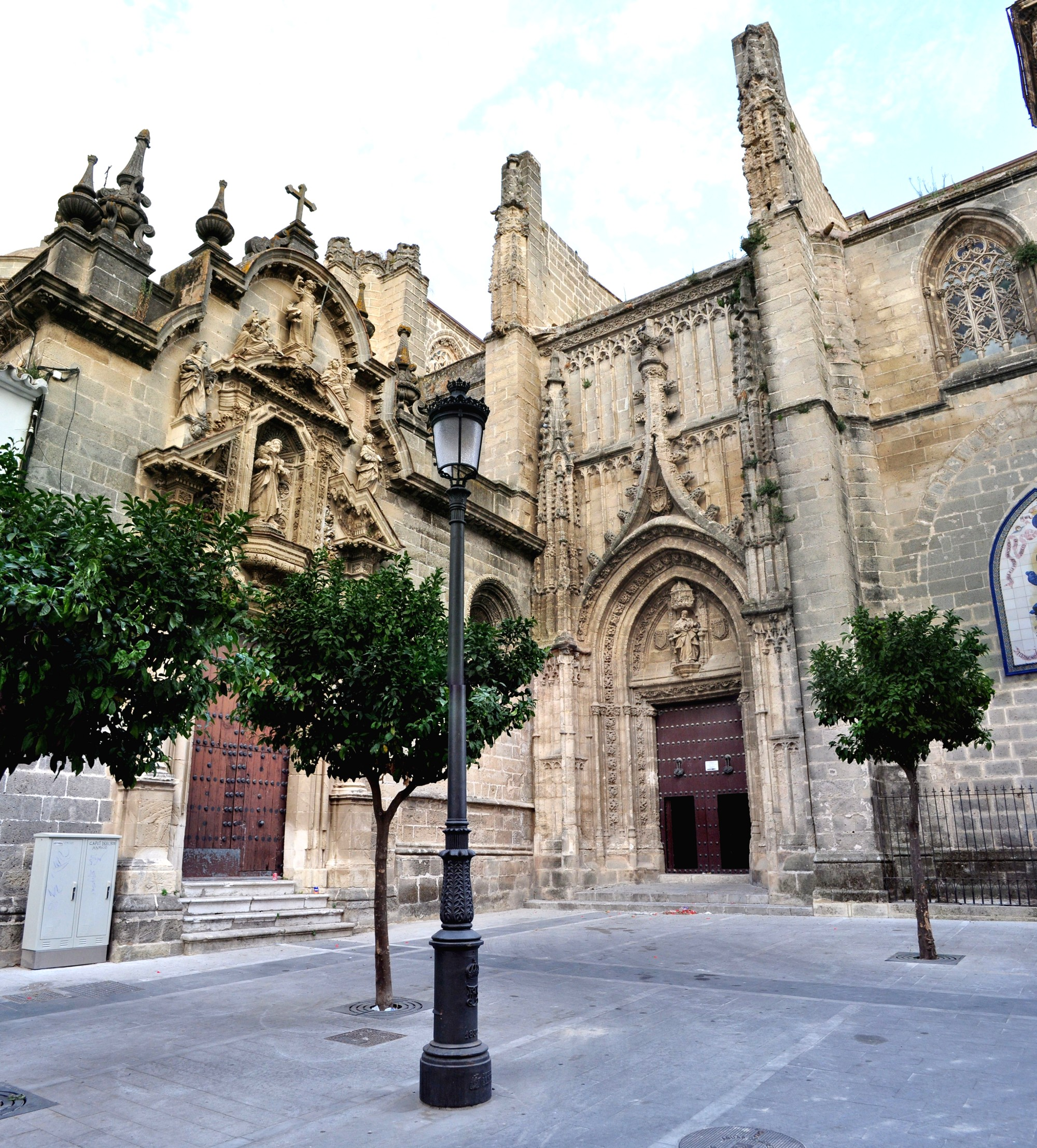 Second Chapel, Saint Michael Church, Jerez